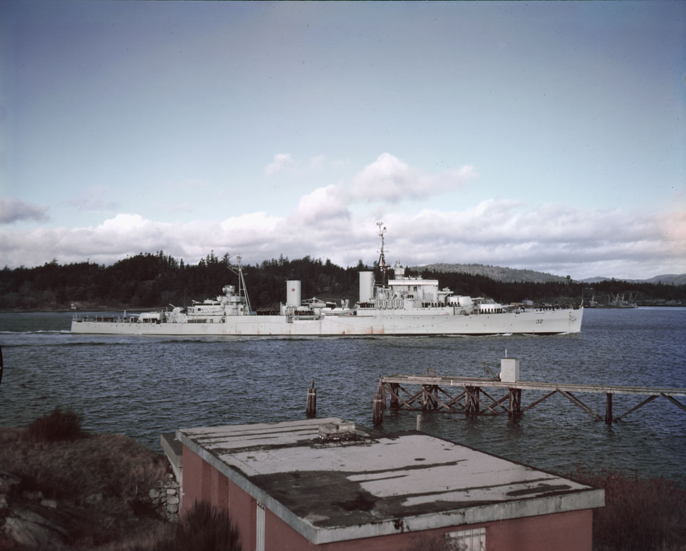 HMCS Ontario Passing Duntz Head Feb 7/58.